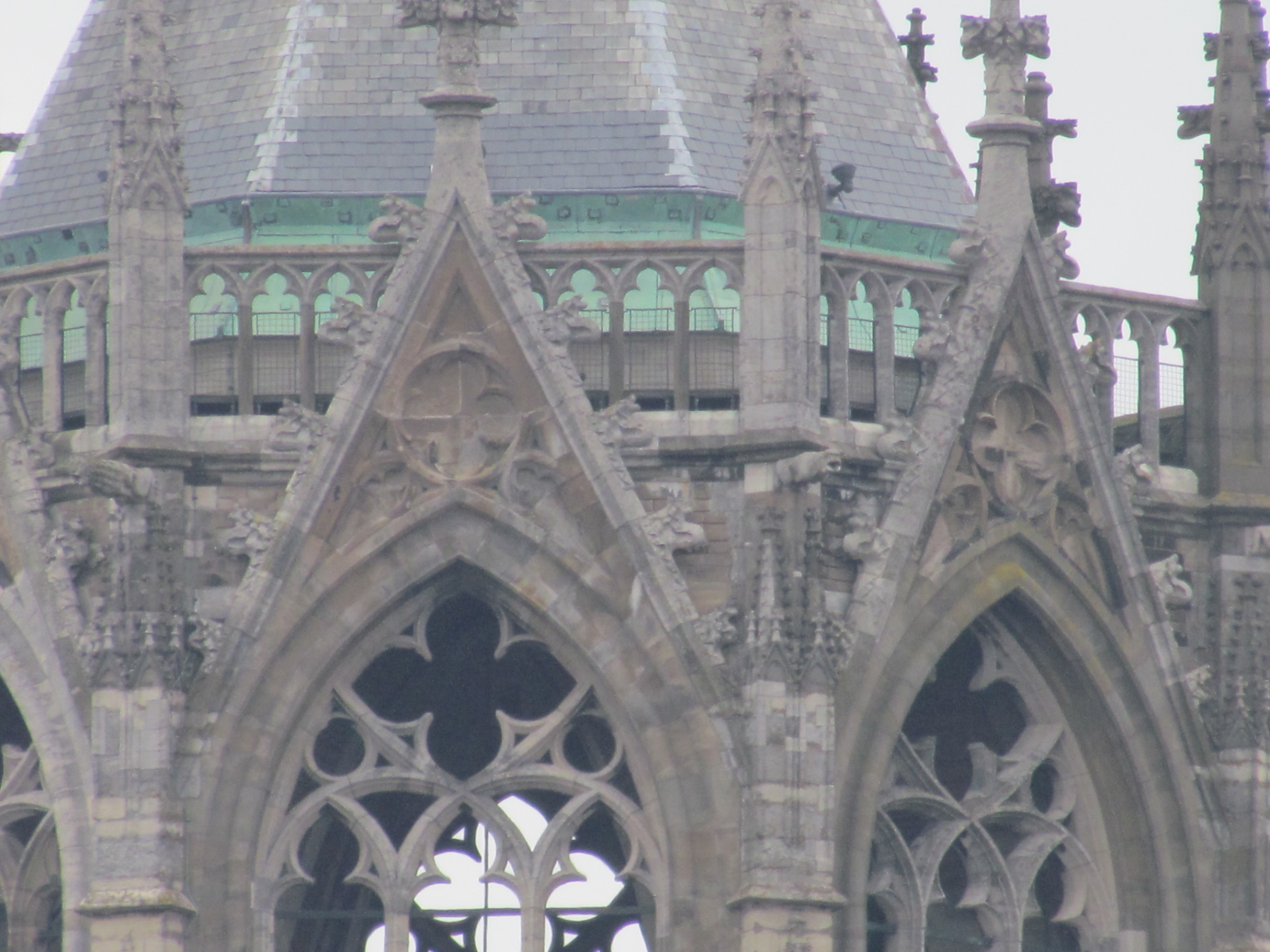 A detailed look at the Dom Tower of Utrecht